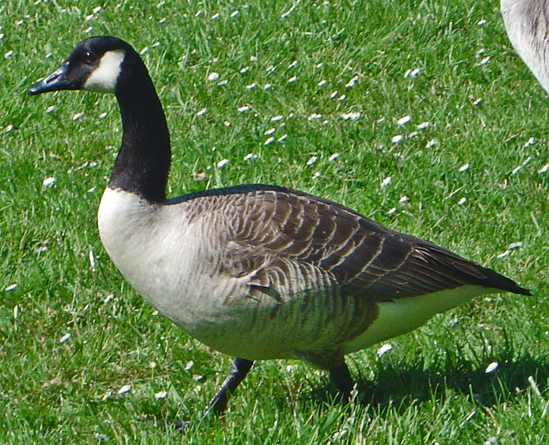 Branta canadensis around the lake of École Polytechnique